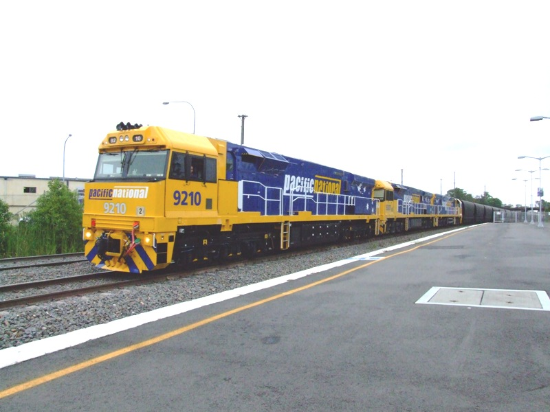 Pacifc